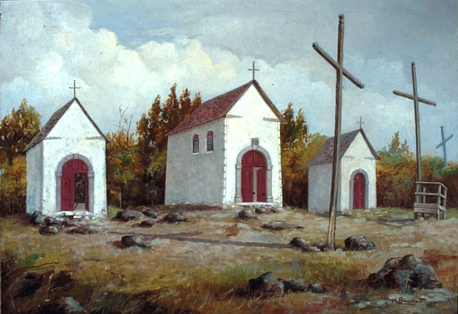 Painting, The Calvary, Two Mountains, Que., Henry Richard S. Bunnett, 1885, Oil on canvas, 30.8 x 41 cm